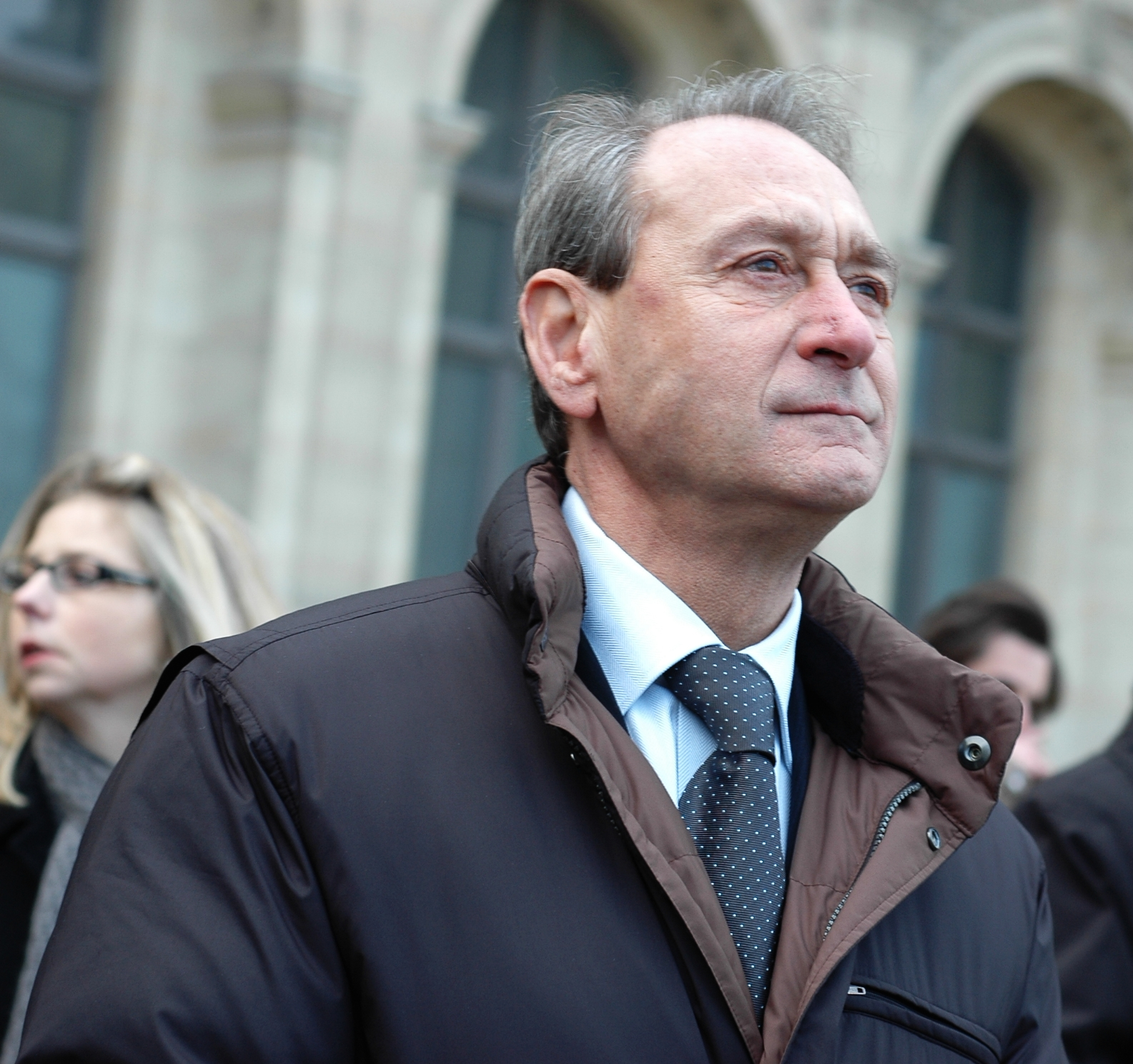 Bertrand Delanoë, mayor of Paris (France). Photo taken in Paris, in front of the Louvre Museum, January 6, 2006. Mr Delanoë was celebrating the 10th anniversary of the death of François Mitterrand, former President of France.